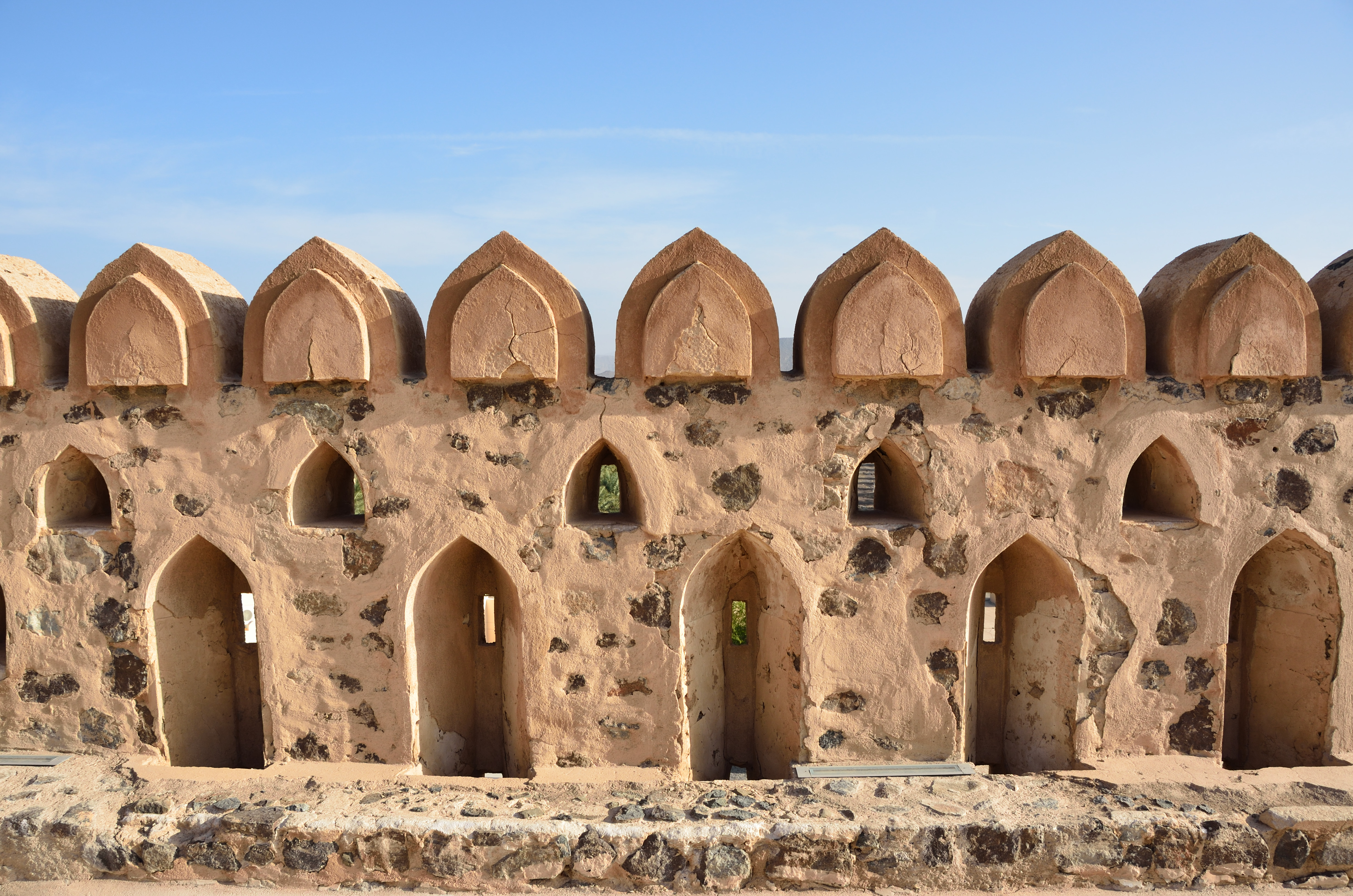 Jabreen Castle (Oman)